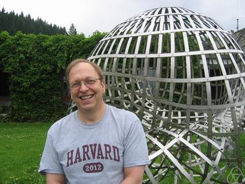 Joe Harris, Oberwolfach 2008